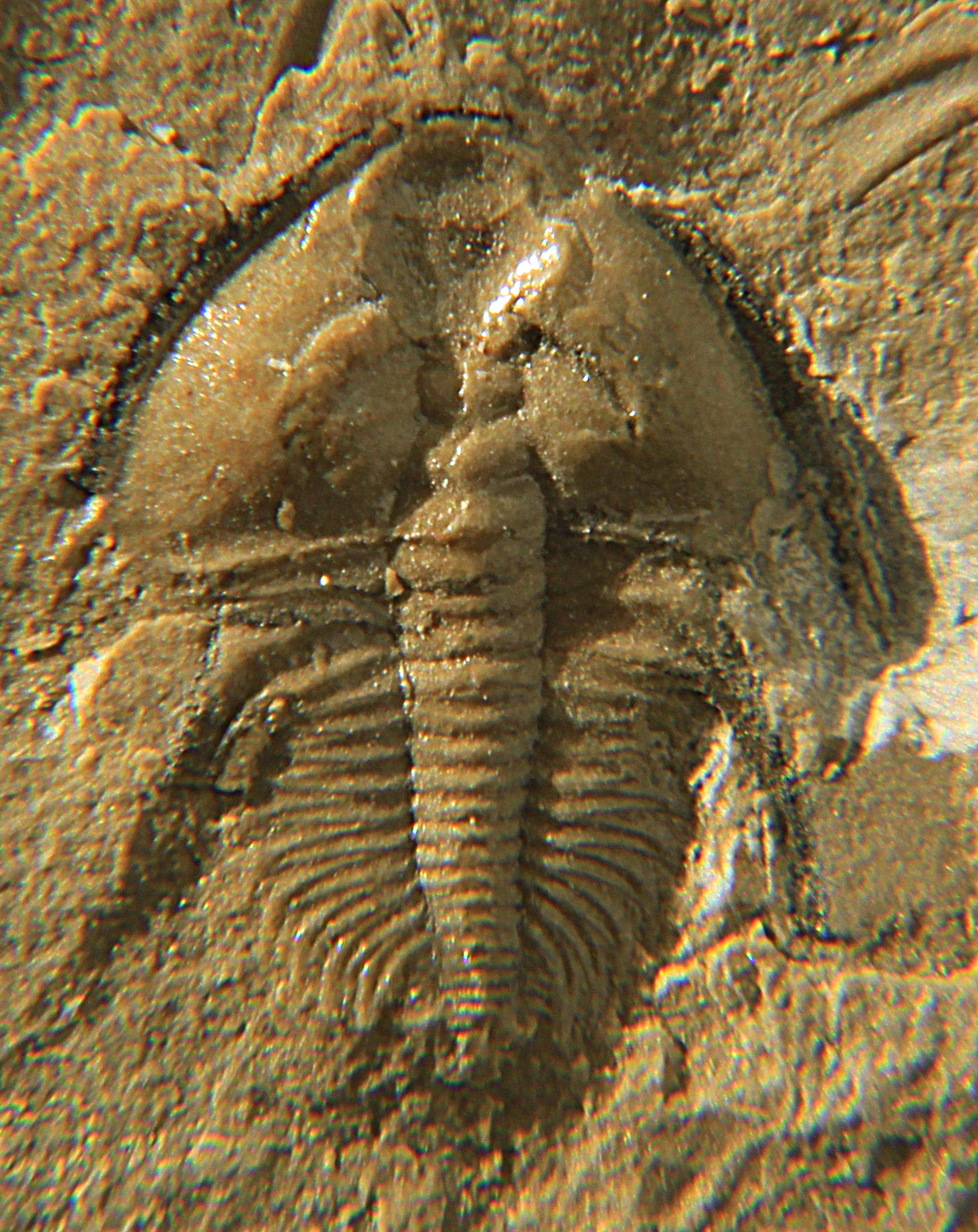 A juvenile specimen of the trilobite Nephrolenellus geniculatus, 9mm along the axis, Order Redlichiida, Family Biceratopsidae, probably collected at the Ruin Wash Member of the Pioche Shale, Nevada, USA, from the Lower Cambrian, although the label states it is from the (Middle Cambrian) Chisholm Shales.